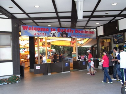 Aso Cuddly Dominion.